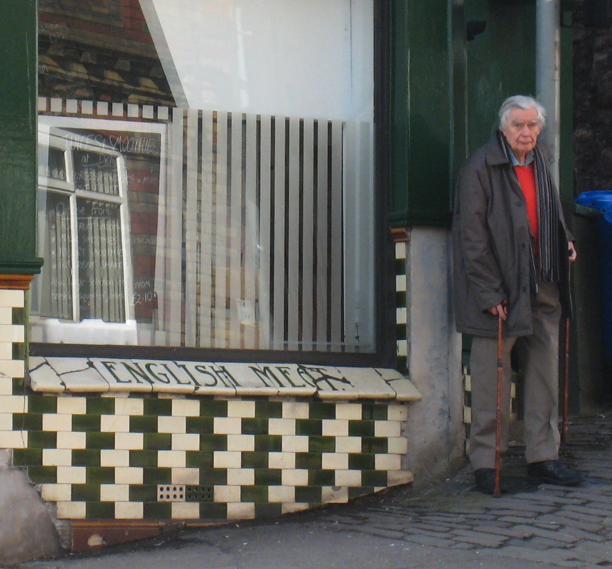 Professor Richard Gregory visits the Cafe Wall in February 2010